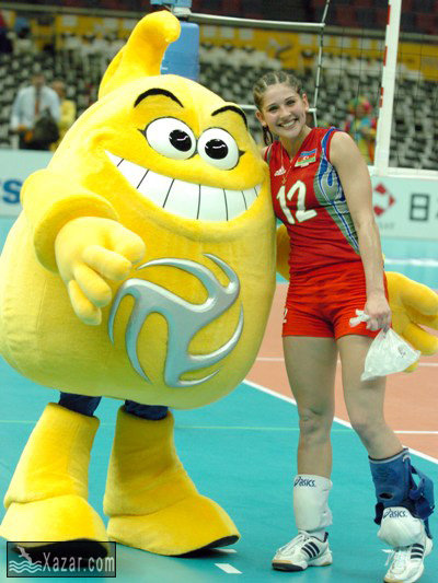 foto de valeriya